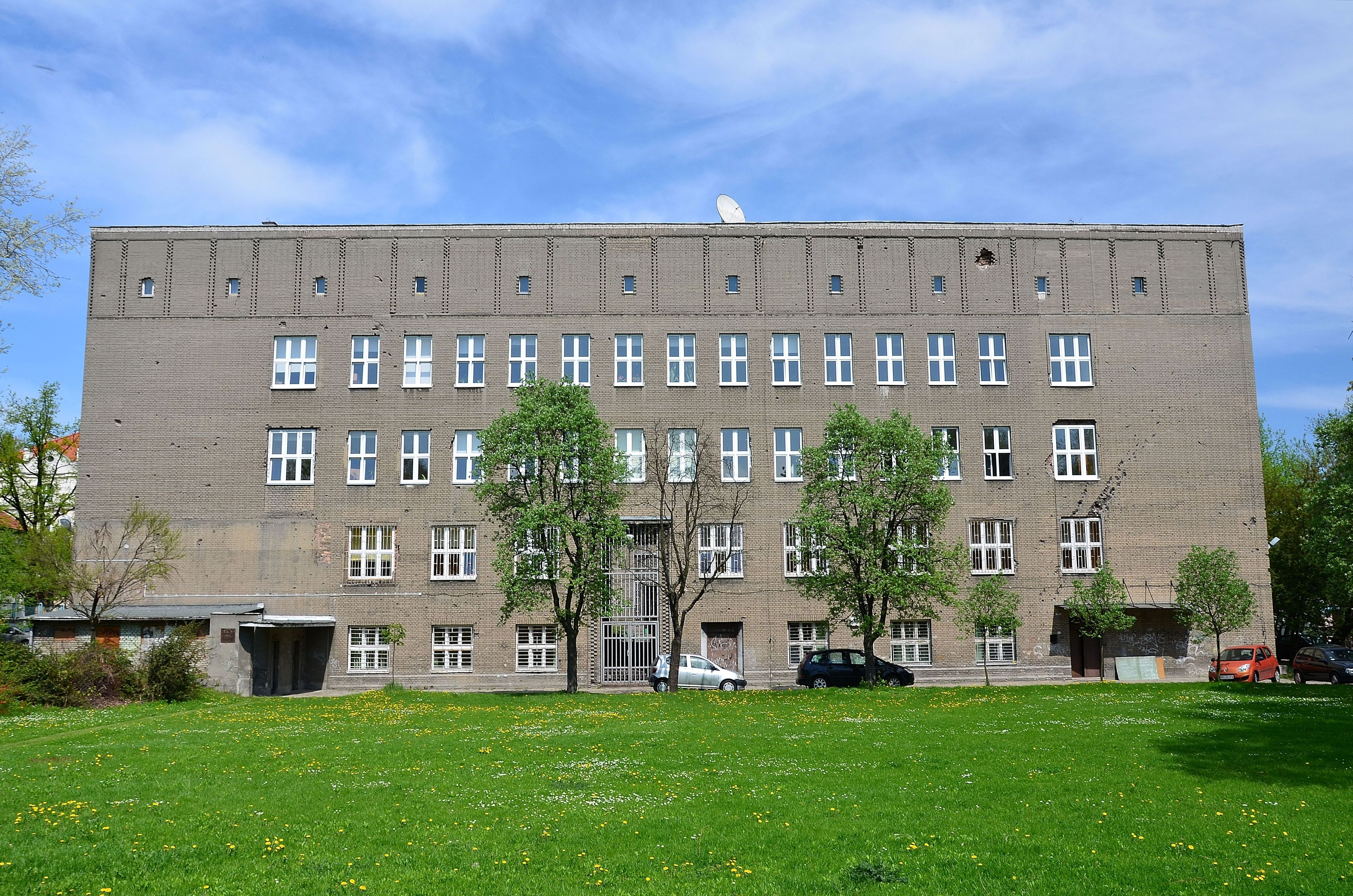 Building at 31 Górnośląska Street view from the south